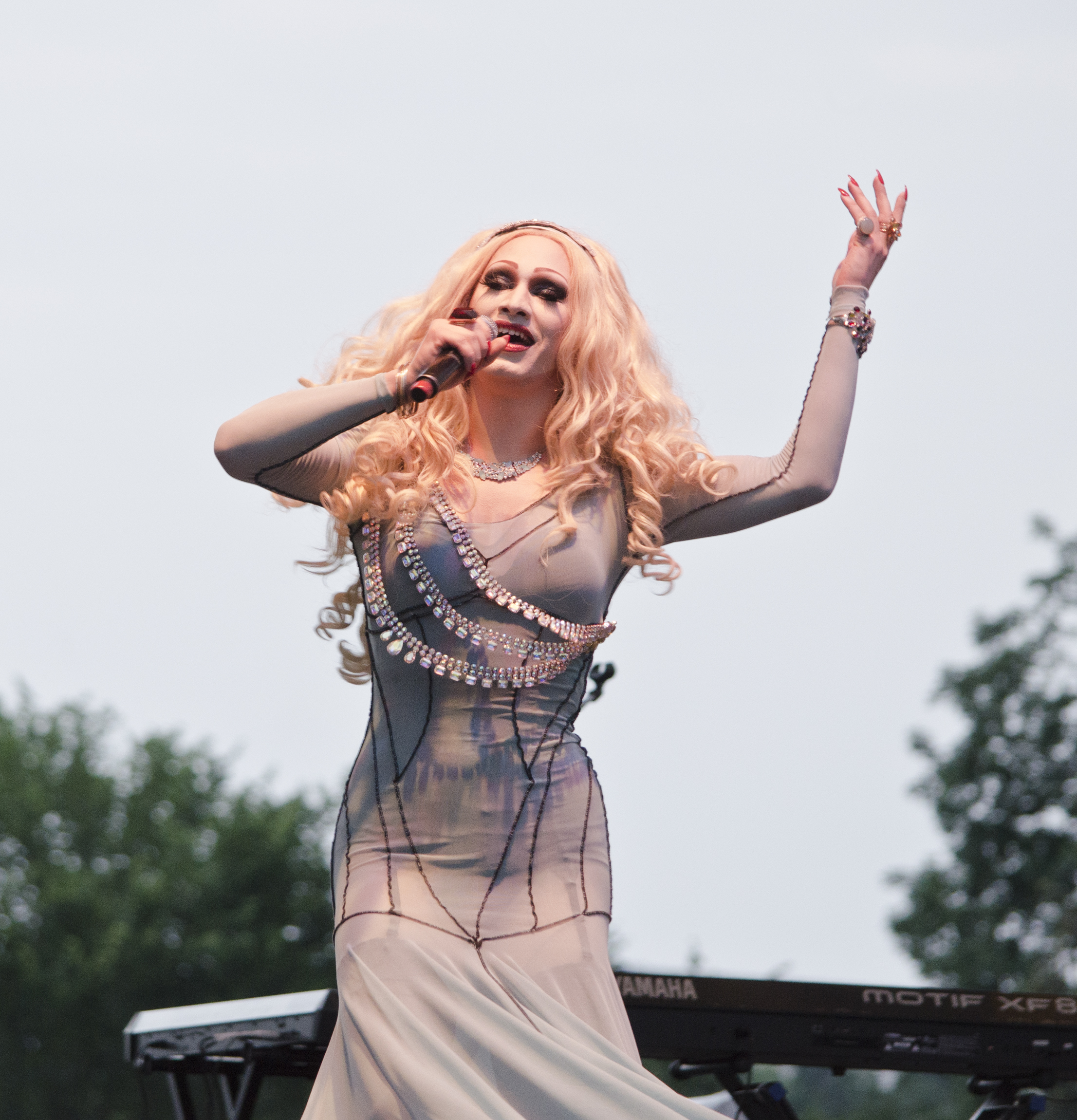 Jinkx Monsoon 006 - DC Capital Pride street festival - 2013-06-09